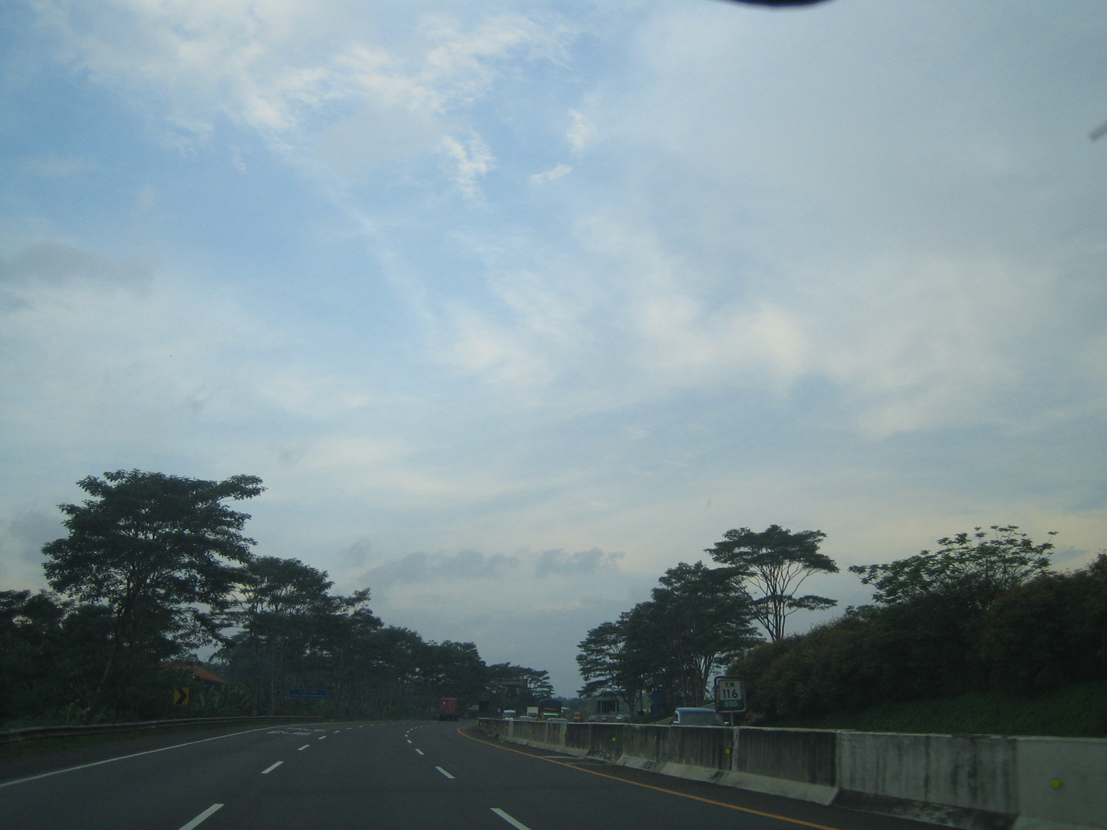 Cipularang Toll Road, KM 116, near Cikamuning